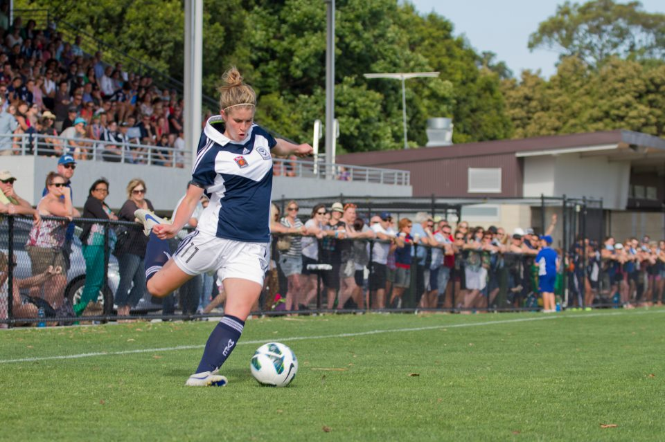 Caitlin Friend of Melbourne Victory Women crosses during a match at Wembley Park, Box Hill